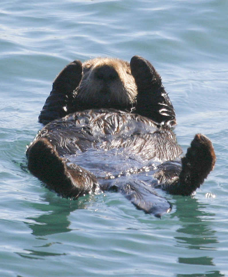 Sea Otter, Morro Bay Estuary, Morro Bay, CA, photo by Mike Baird